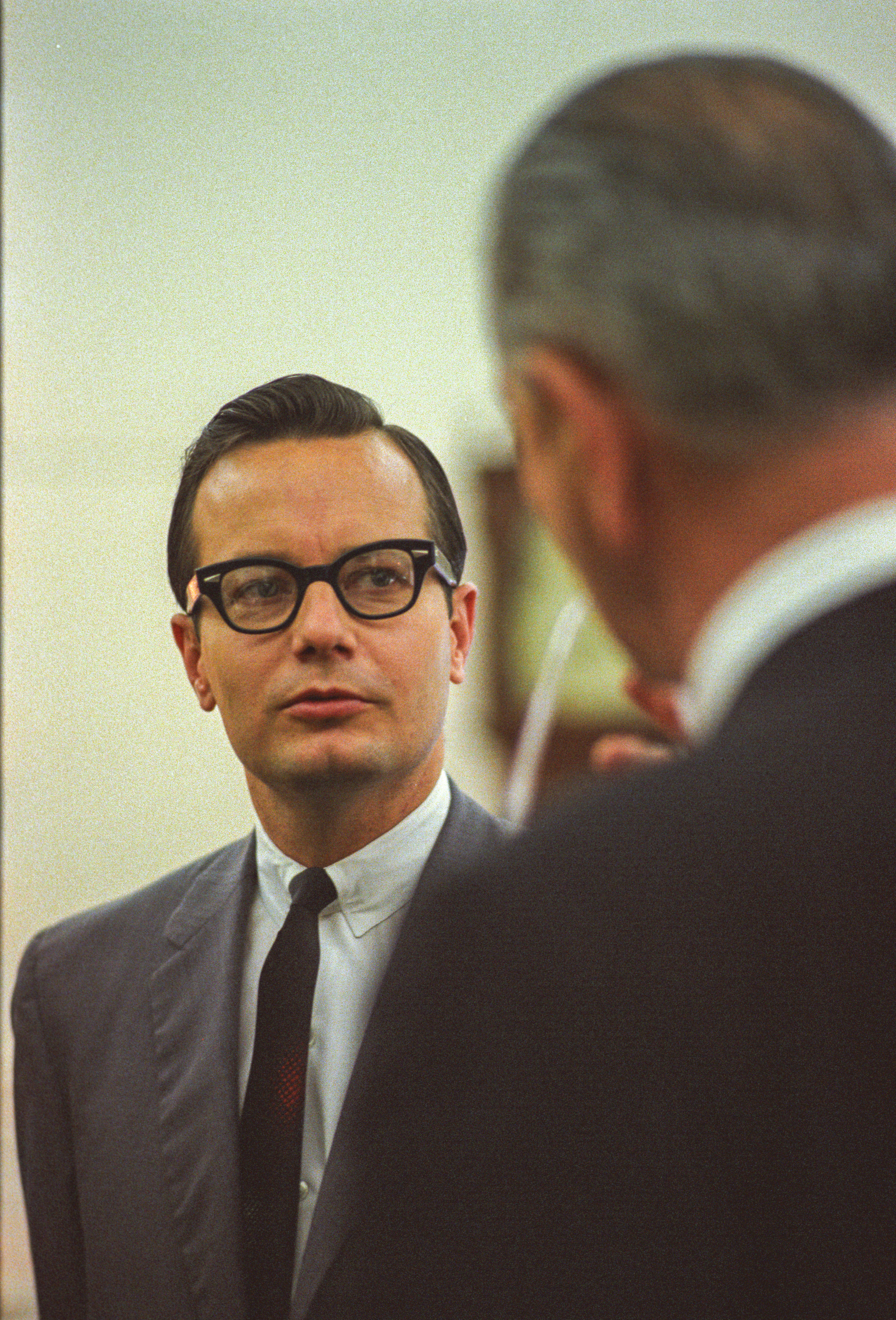 US President Lyndon Johnson (only back of his head seen in foreground) speaks with White House press secretary Bill Moyers (left) in the Oval Office, White House, Washington, DC, 8 September, 1966.